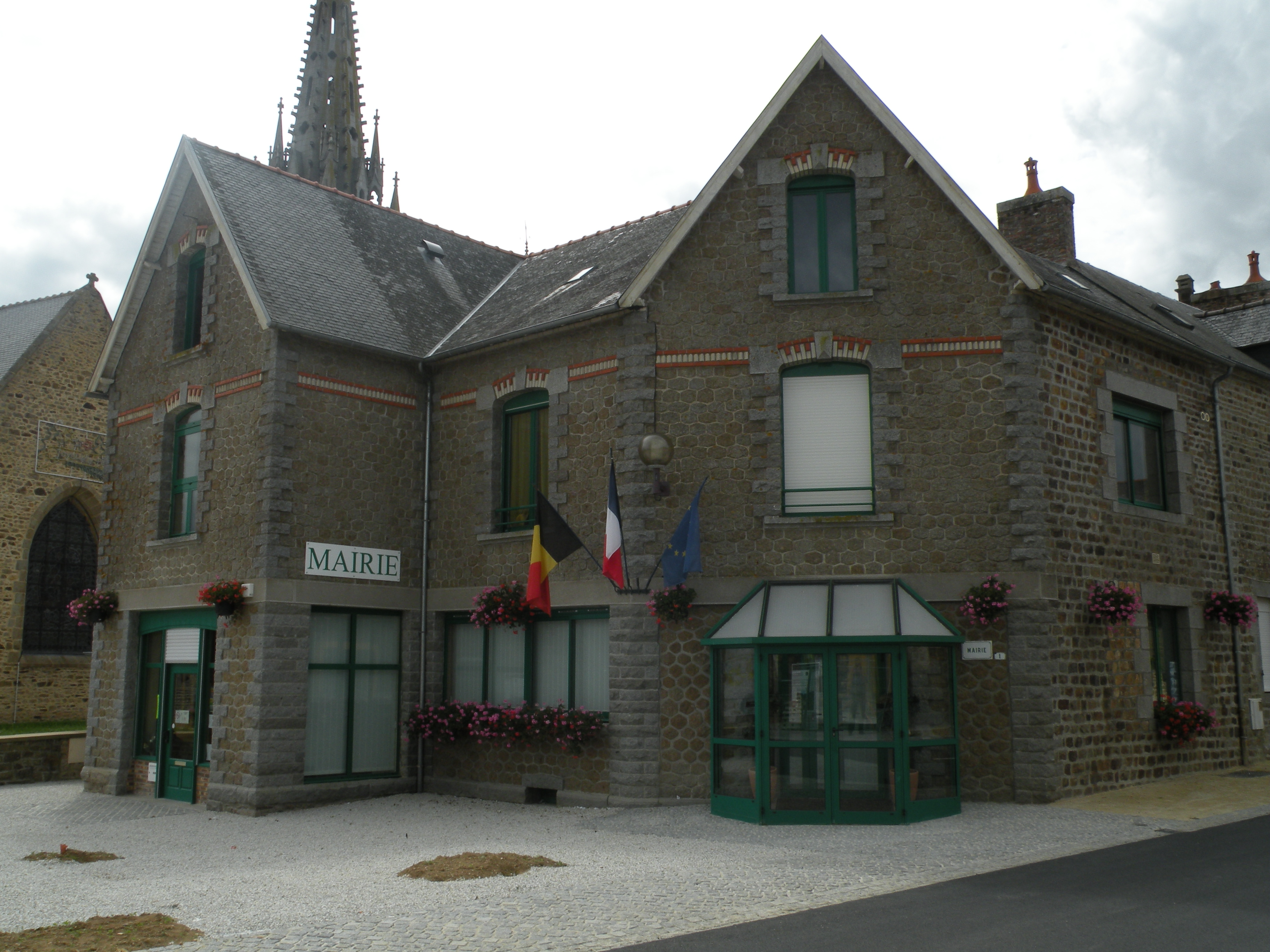 Town hall of Parcé.